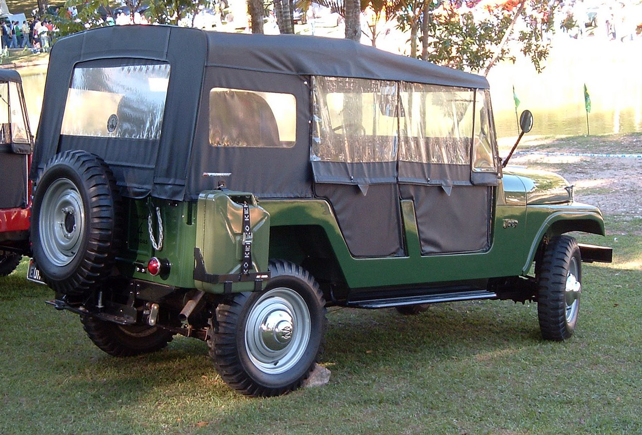 1961 Willys Jeep 101 4 portas (aka "Bernardao"). This version was available in Brazil between 1961 and 1966. The Brazilian CJ5 received square rear wheel openings, and production was later taken over by Ford (1967).